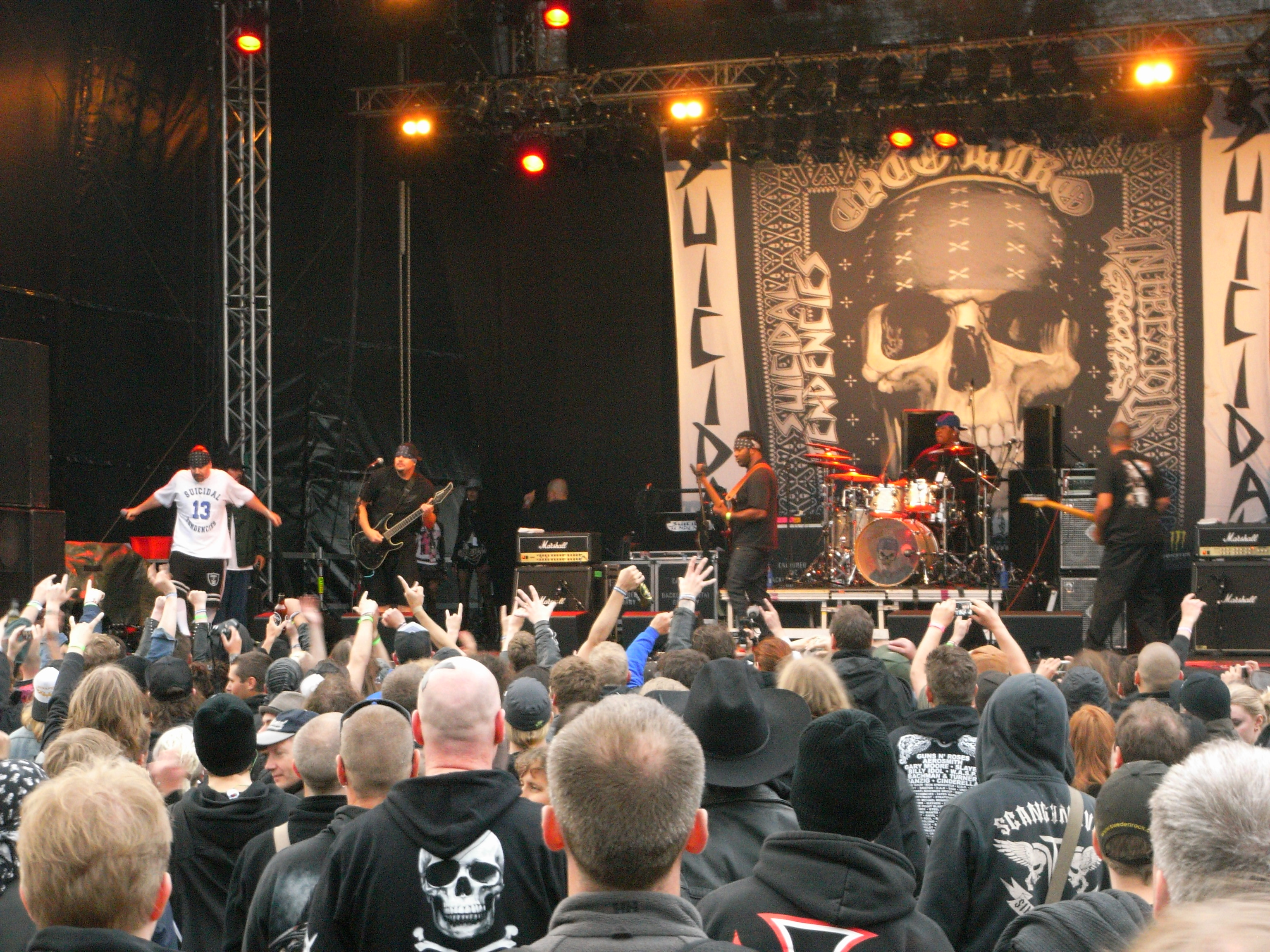 Suicidal Tendencies at Norje, Blekinge, Sweden, 2010.